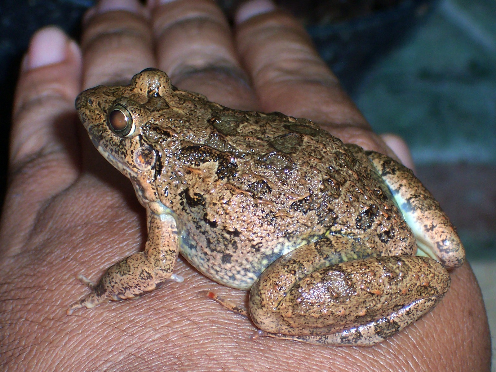 Fejervarya limnocharis without vertebral line or stripe; female; in hand for comparison. From Bogor, West Java, Indonesia.